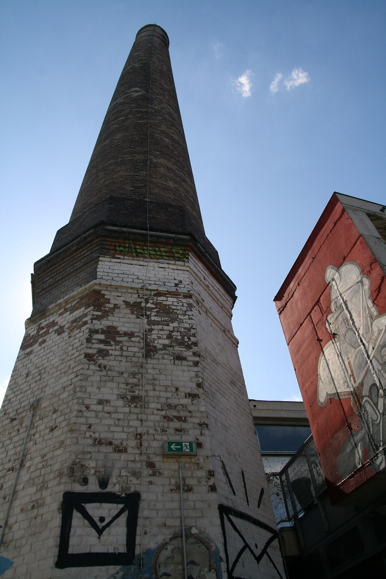 The old chimney at the cultural center Arena in Vienna, Austria.